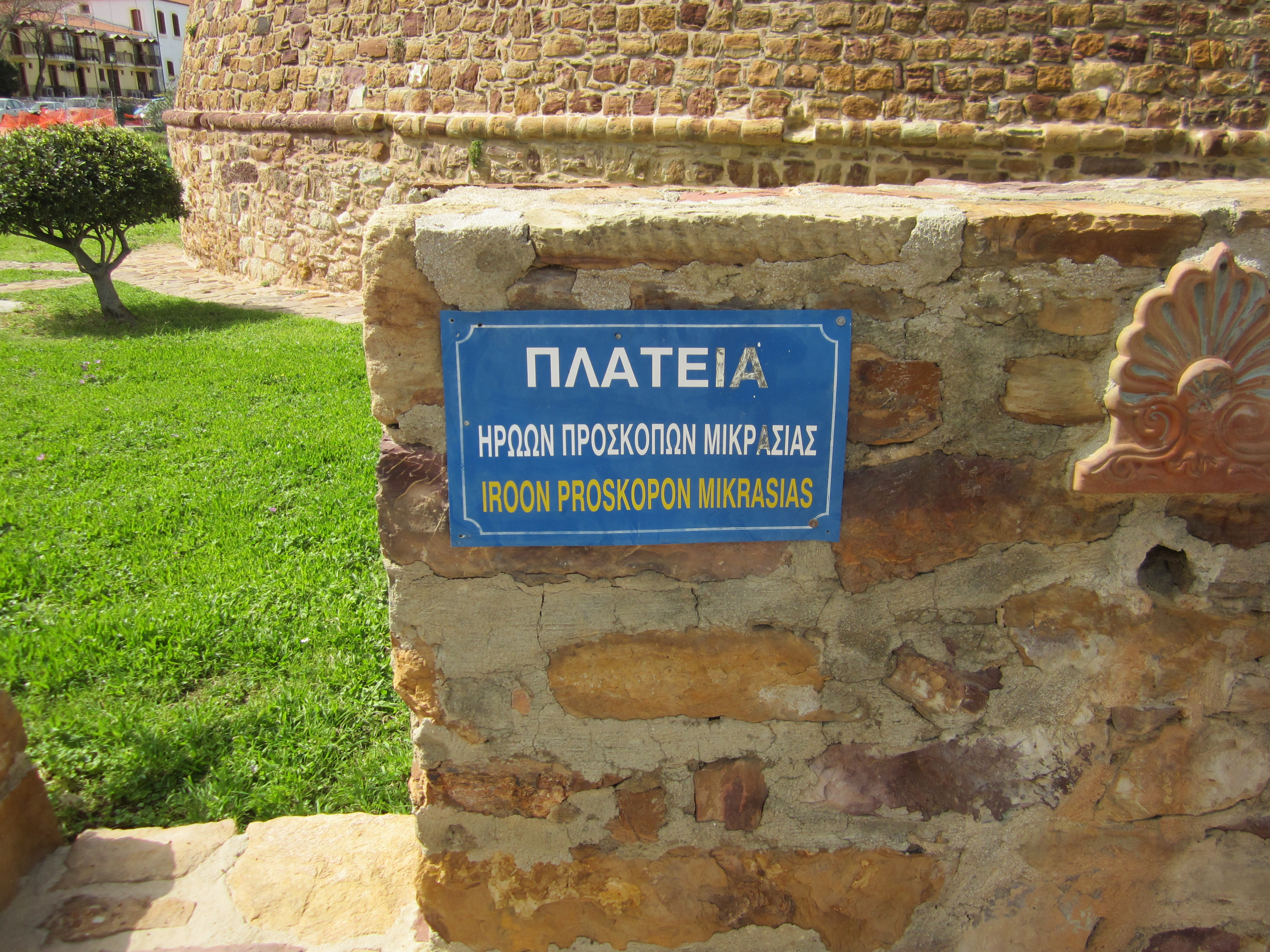 Square of Asia Minor heroes scouts on the Greek island of Chios